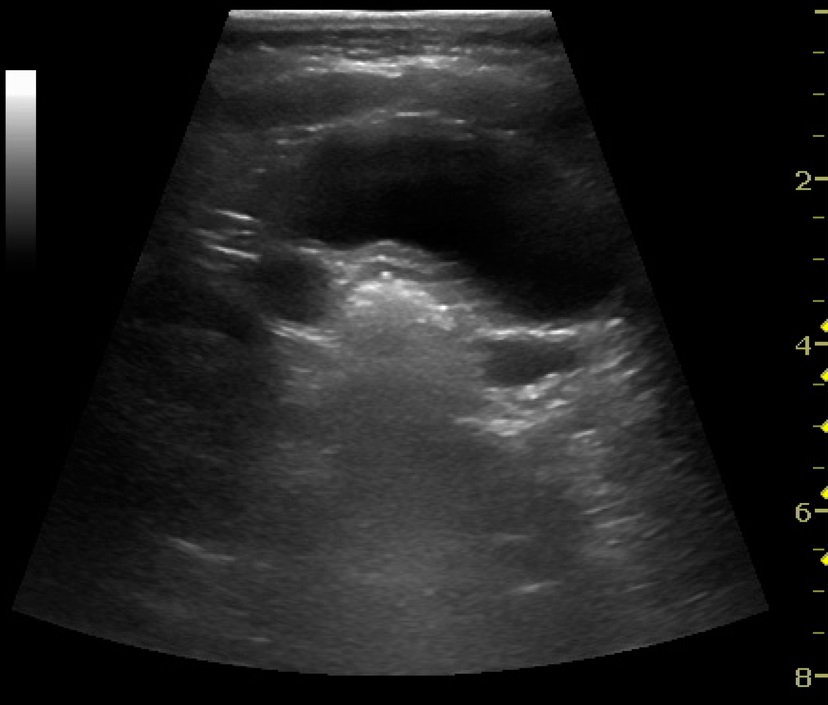 Bilateral dilatation of the ureters due to vesicoureteric reflux in a pediatric patient. For context, see Renal ultrasonography